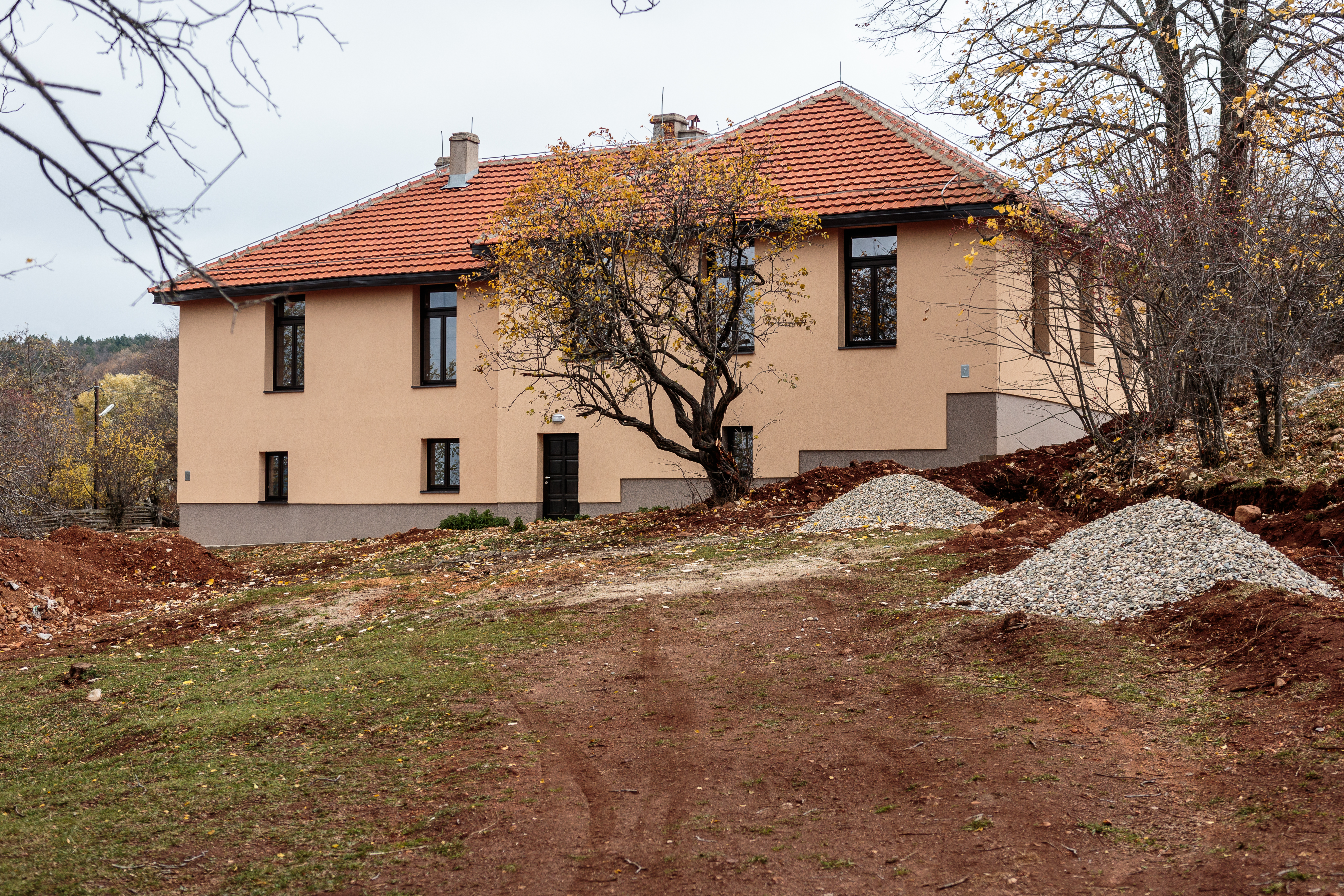 Primary school in the village of Negrevo, Maleševija, Macedonia